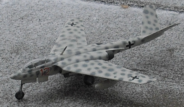 Model of a Heinkel P.1079A. Source now is